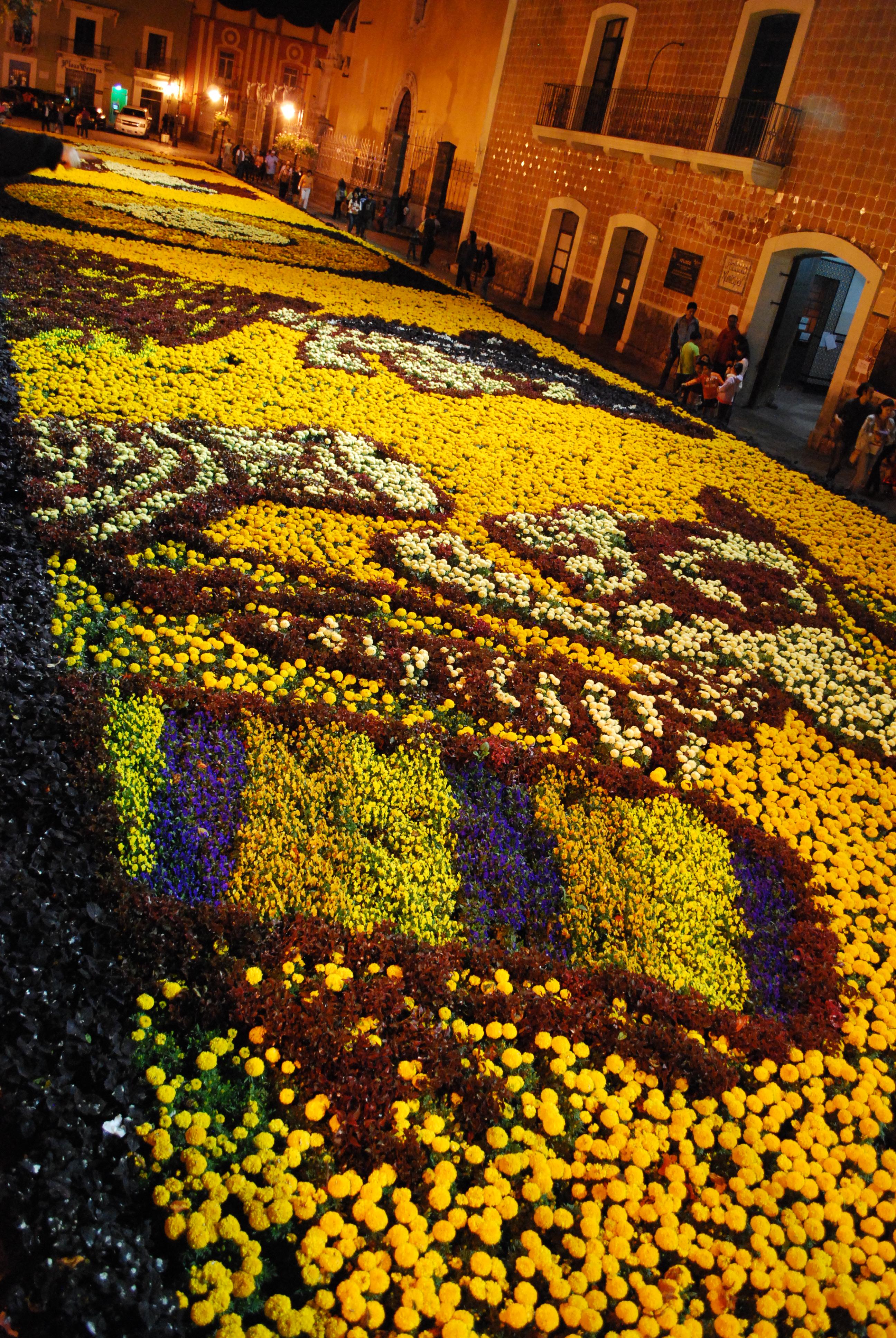 Various flowers in pots arranged into "carpets" to decorate the space in front of the municipal hall and main church in Atlixco, Puebla